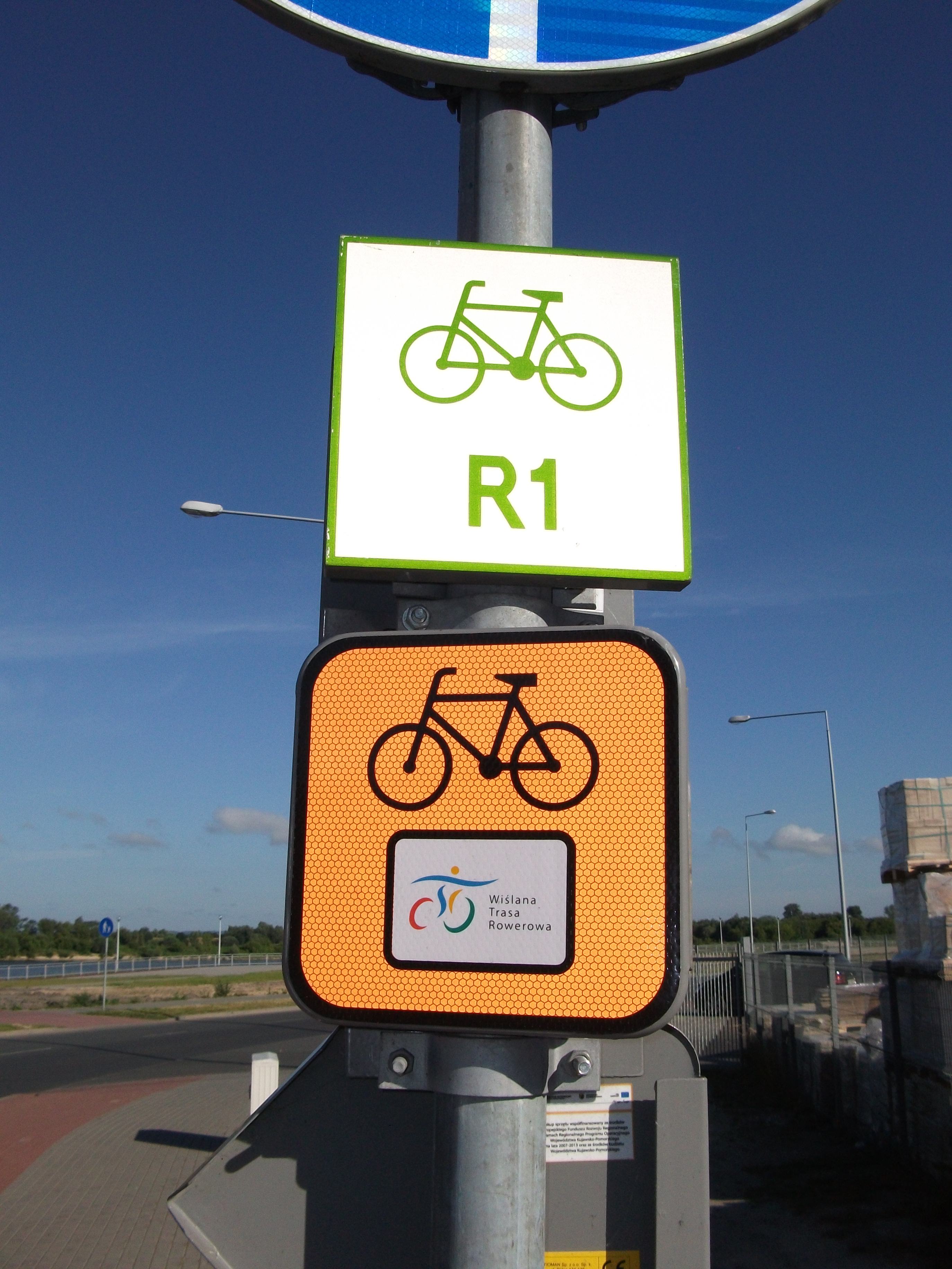 International Bicycle Route R-1 and Wiślana Bike Route in Grudziadz